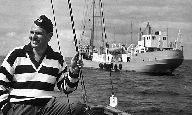 Jack Kotschack poses in front of Bon Jour 1962.